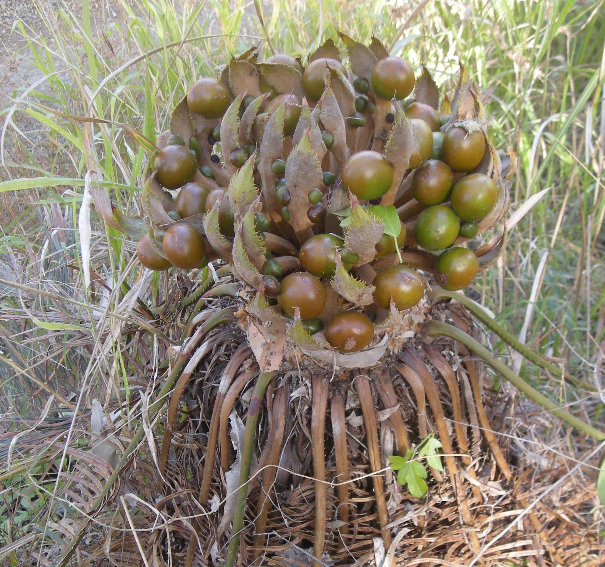 Cycas ophiolitica female fruit close up